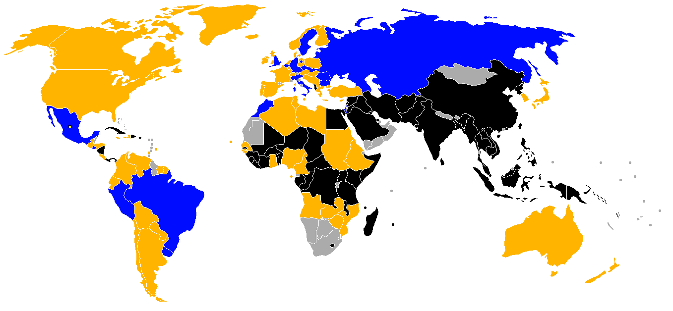 Status of countries with respect to 1970 FIFA World Cup: Qualified for World Cup finals Failed to qualify for World Cup finals Did not enter World Cup Not an associate member of FIFA